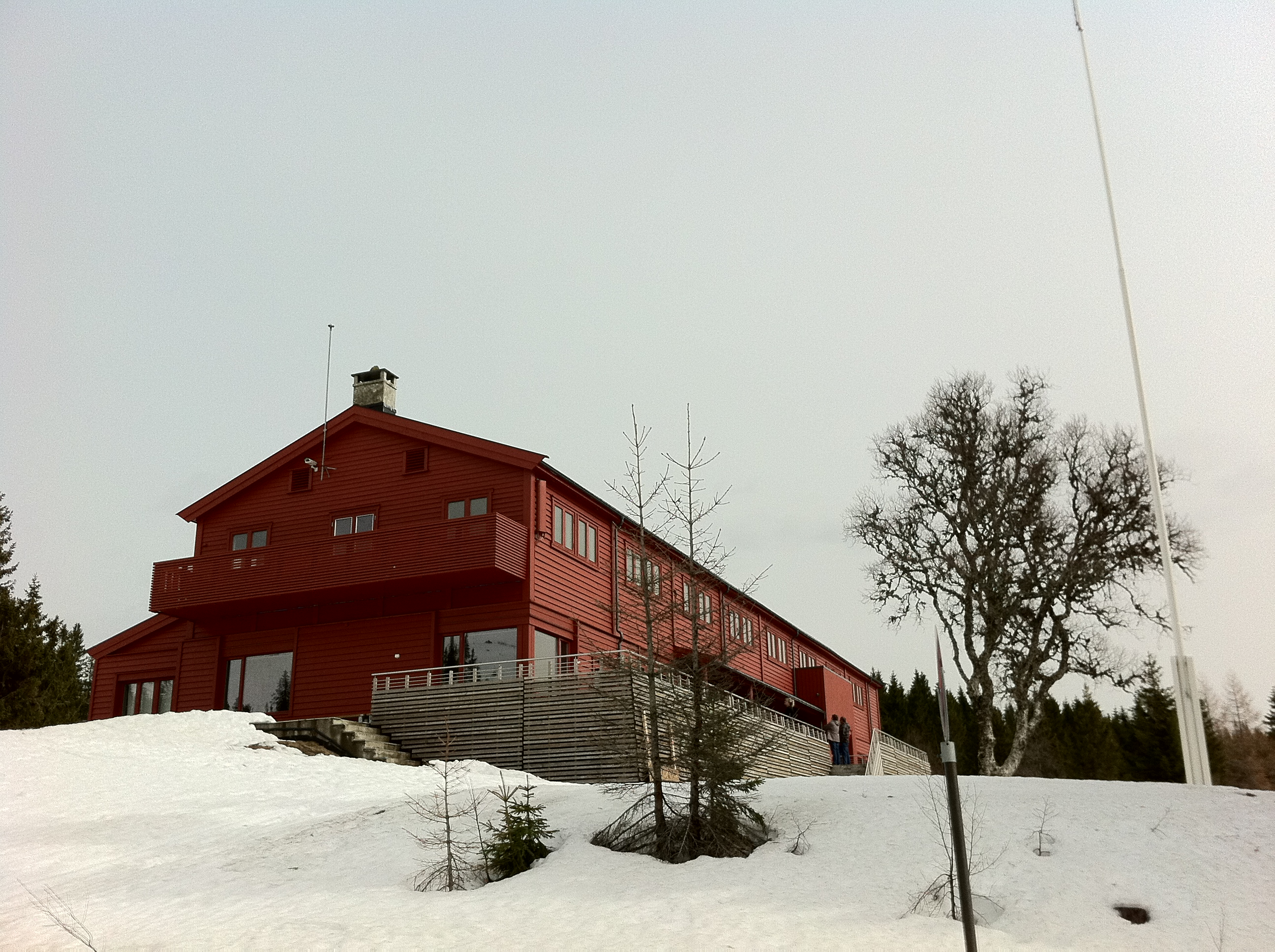 Skistua (=The Ski cottage) in the outskirts of Trondheim, Norway. Popular café for ski-goers